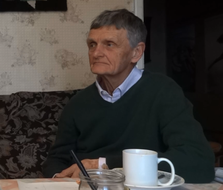 Photo of John Ellis Bowlt.